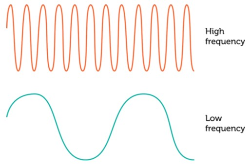 C. annularius flight tone frequencies, male ~434 Hz and females ~240 Hz